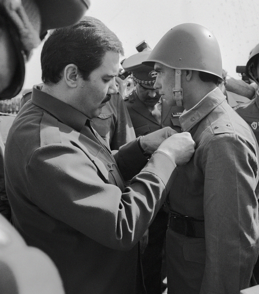 “Najibullah giving decorations”. Najibullah (left), general secretary of the People's Democratic Party of Afghanistan, giving decoration to a Soviet serviceman